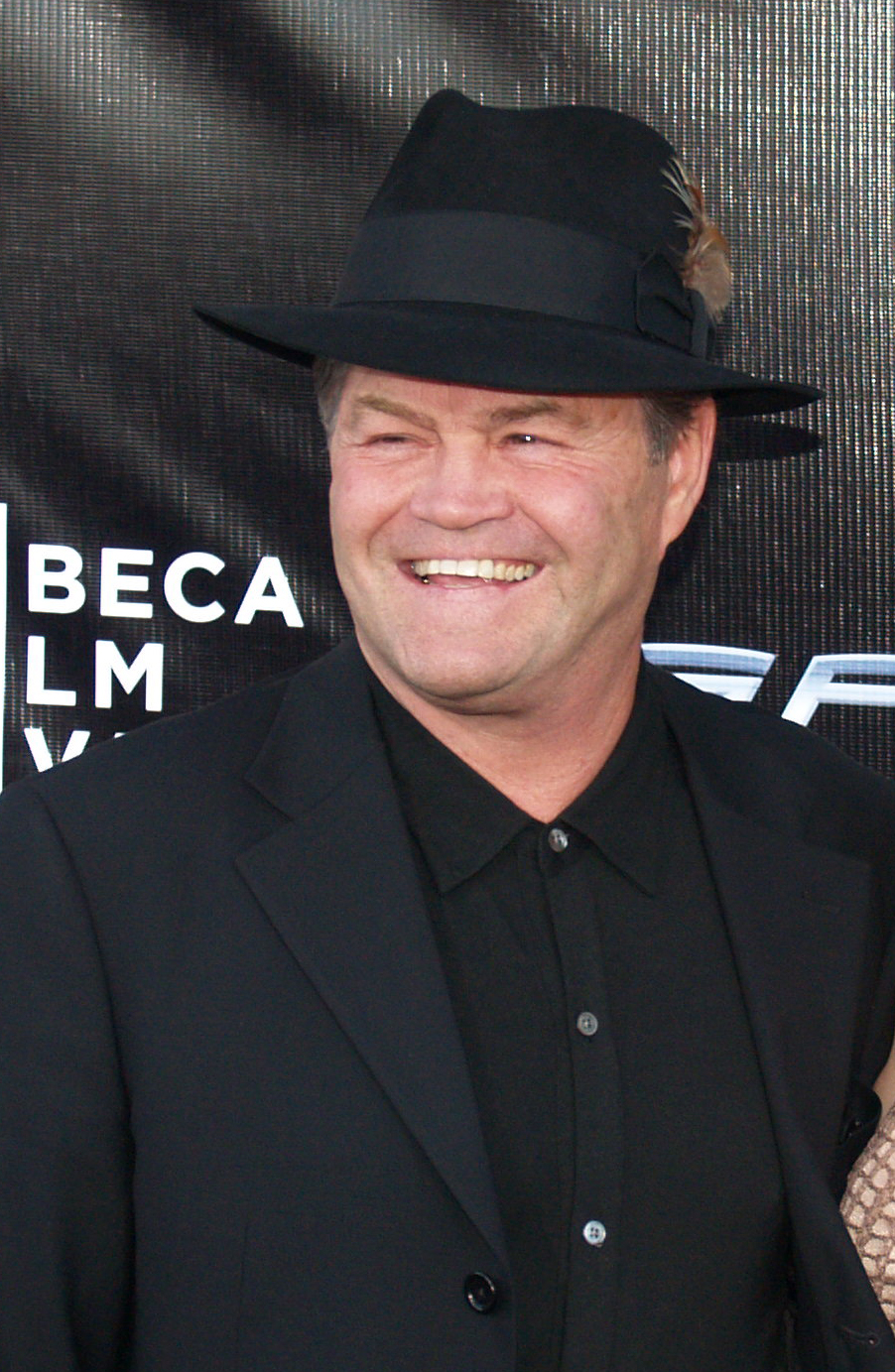 Micky Dolenz by David Shankbone